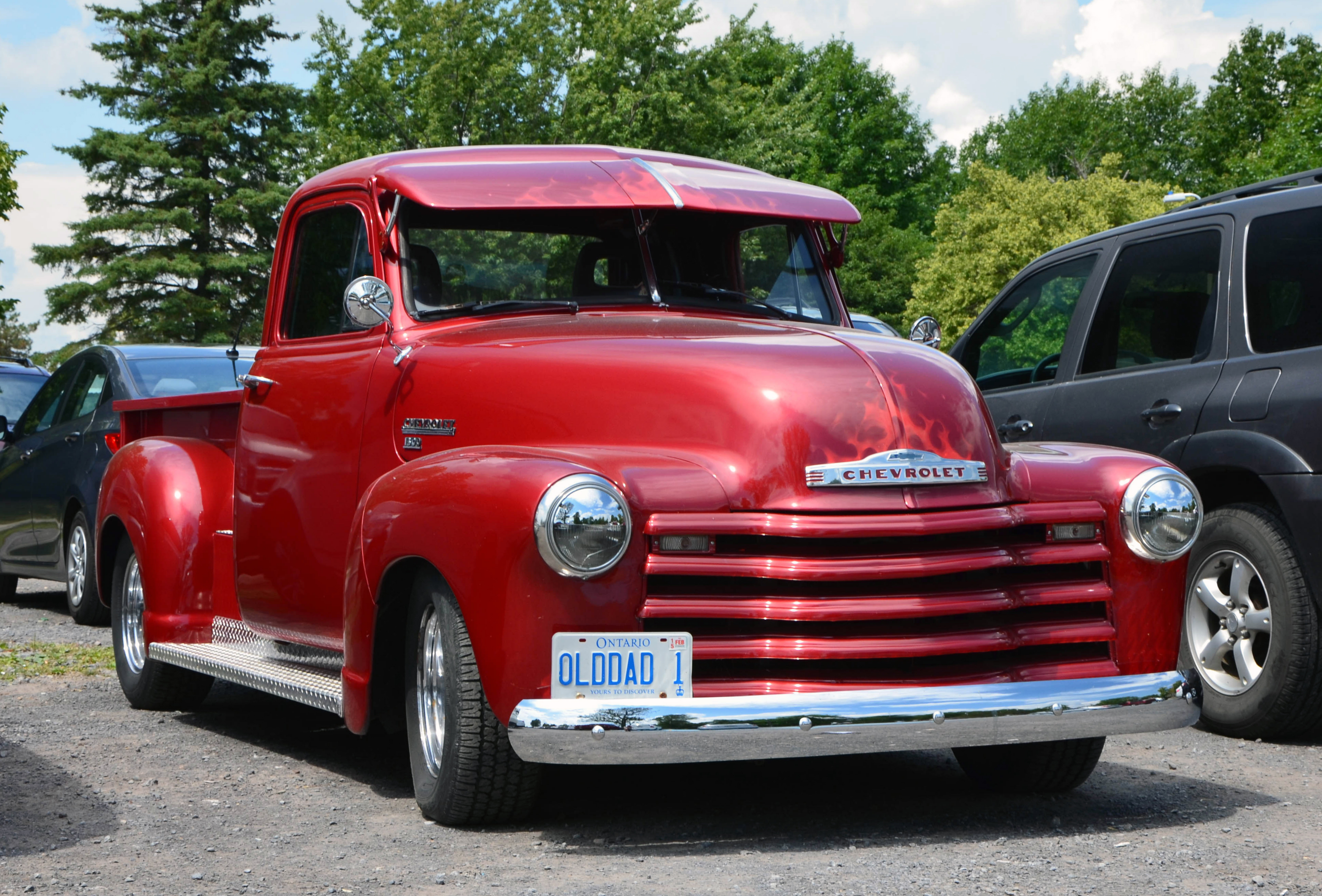 Red Chevrolet Advance Design in Morrisburg (Canada)